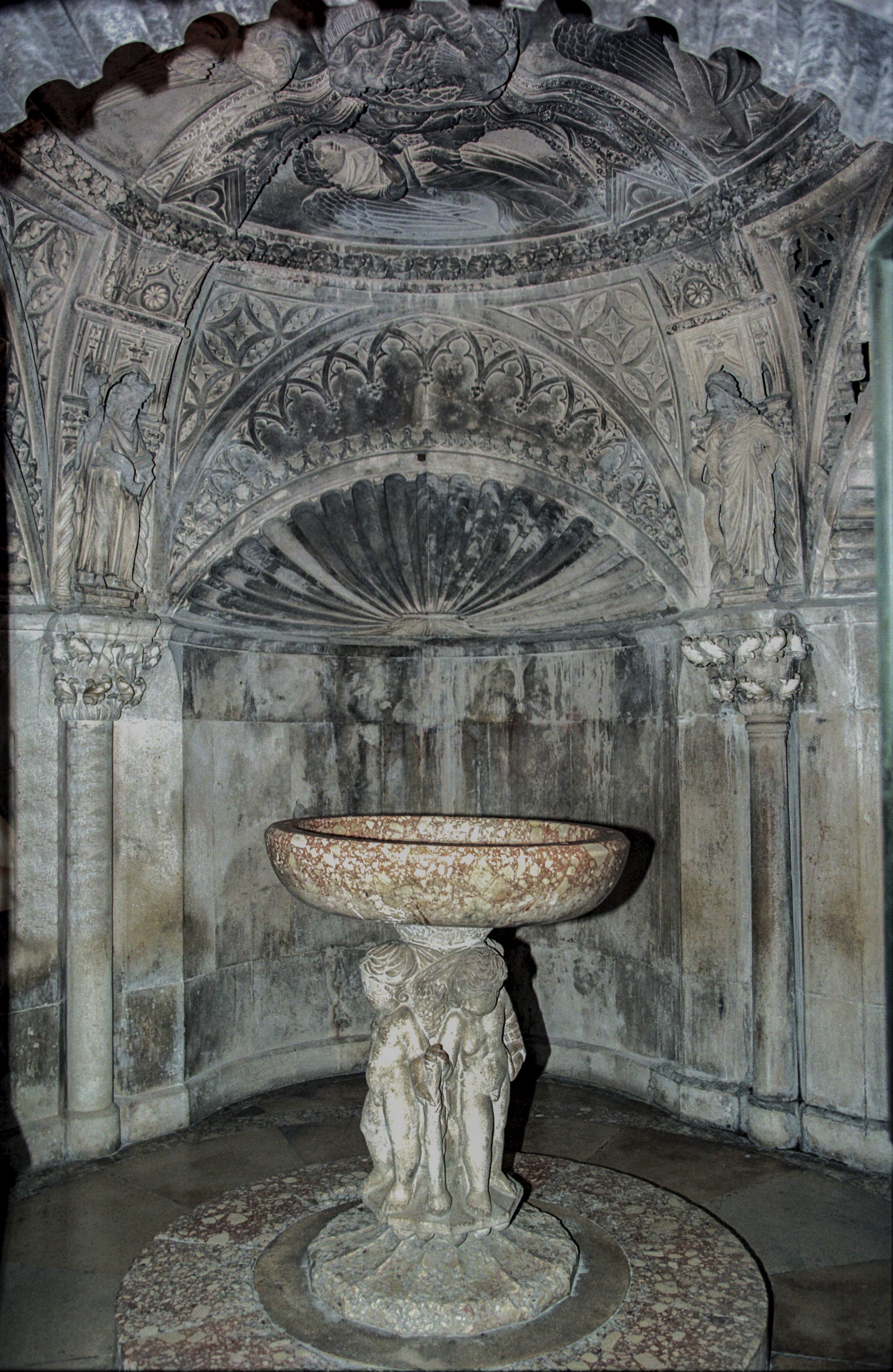 Cathedral of St. Jaco - the baptistery, Šibenik